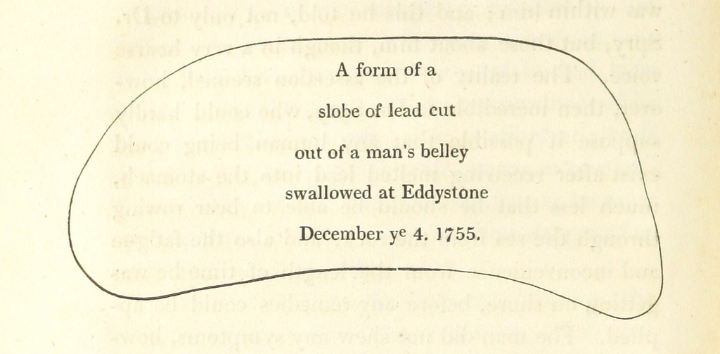 Outline of slab of lead removed from lung, having fallen from the roof of Eddystone Light during a fire.